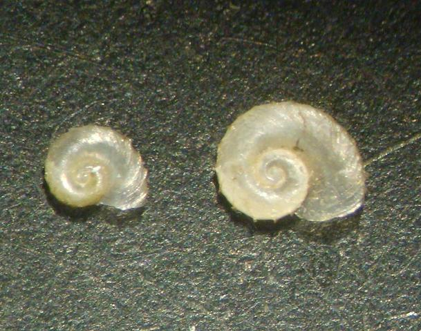 A.crista, minute ramshorn snail